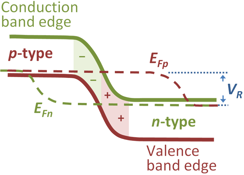 pn-diode quasi-fermi levels in reverse bias